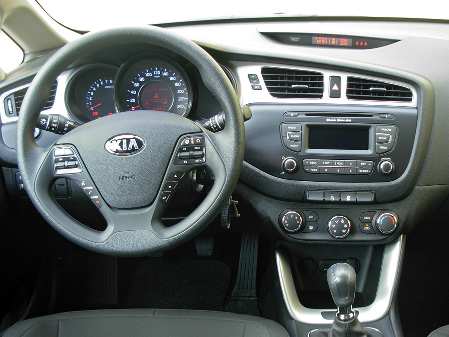 Dashboard of a second-generation Kia Cee'd Active